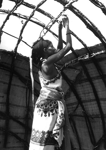 Somali nomad woman thatching a hut (aqal)